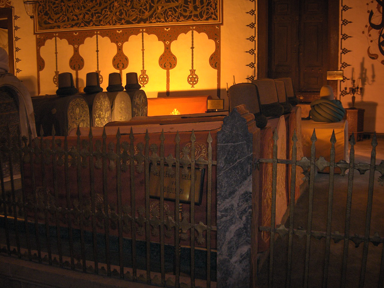 Tombs of descendants of Mevlâna's family or persons with a high rank in the Mevlevi Sect; Mevlâna mausoleum; Konya, Turkey